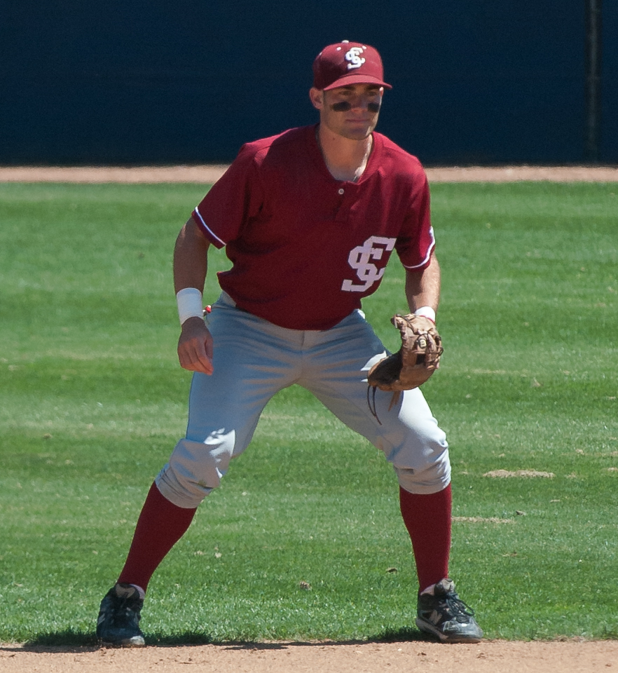 Justin Viele with the Santa Clara Broncos during a 2010 game at George C. Page Stadium in Los Angeles.